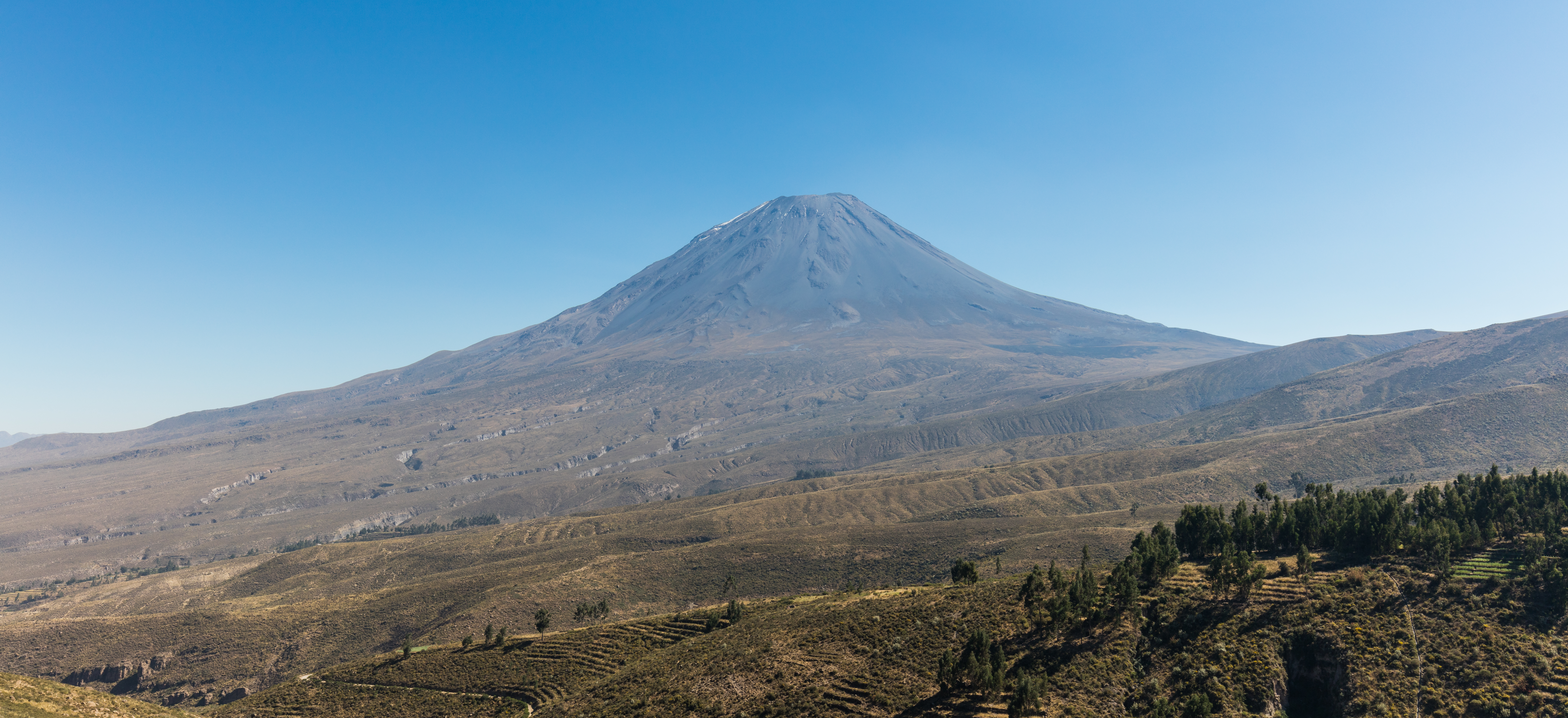 Misti volcano from Arequipa, Peru